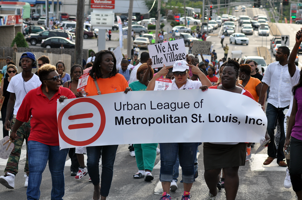 More signage.